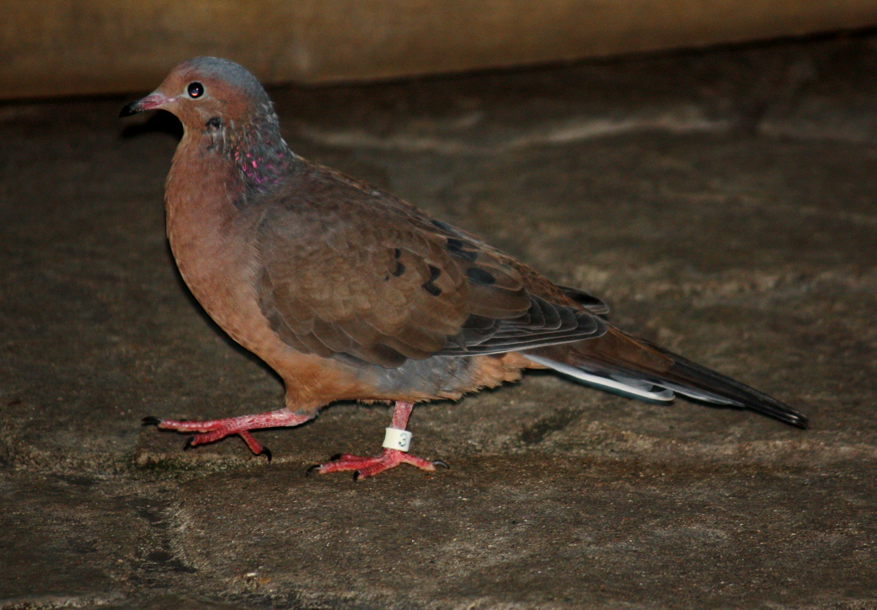 Socorro Ground Dove Zenaida graysoni at the Louisville Zoo